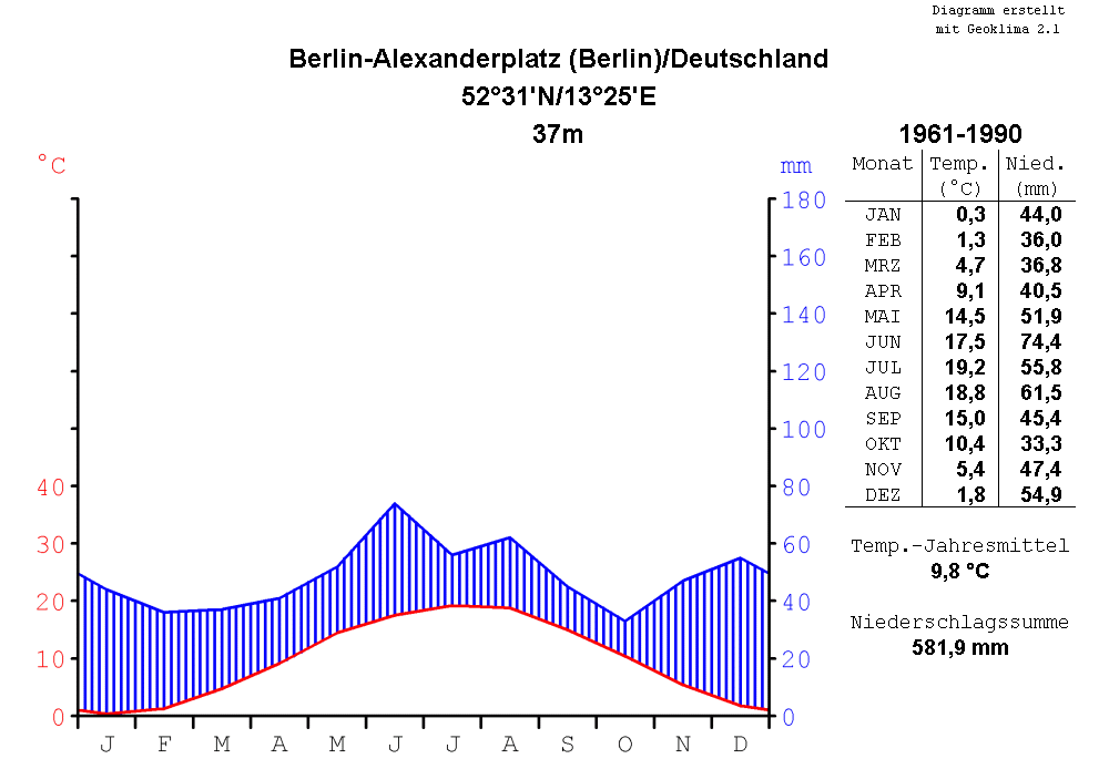 climate chart of Alexanderplatz, Berlin, Germany, for the period of time from 1961 to 1990, in the format by Walter and Lieth, metric, °Celsius and millimeters, chart made with Geoklima 2.1, label in German